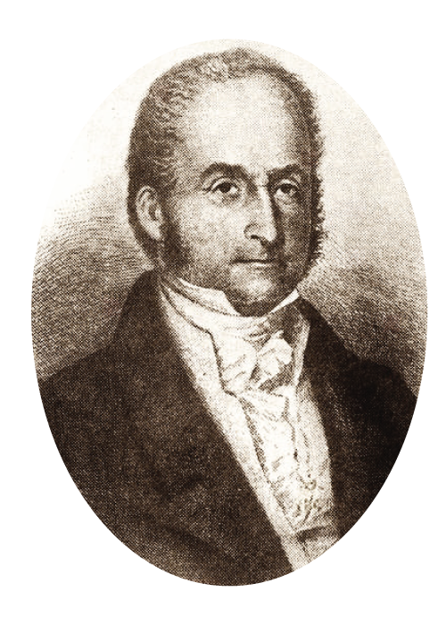 Ridgway is named for the Philadelphia shipping merchant, Jacob Ridgway (b. 1768 - d. 1843).